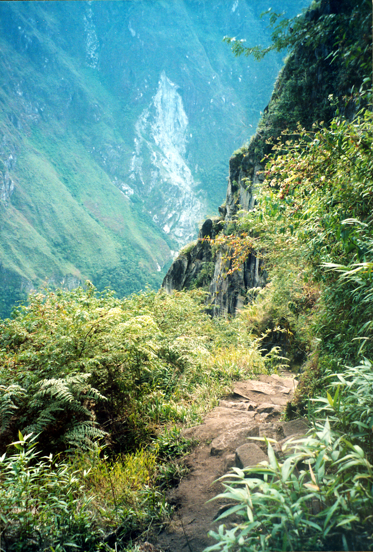 Picture of the pathway on Huyna Picchu, here in descending direction, Machu Picchu, Peru.